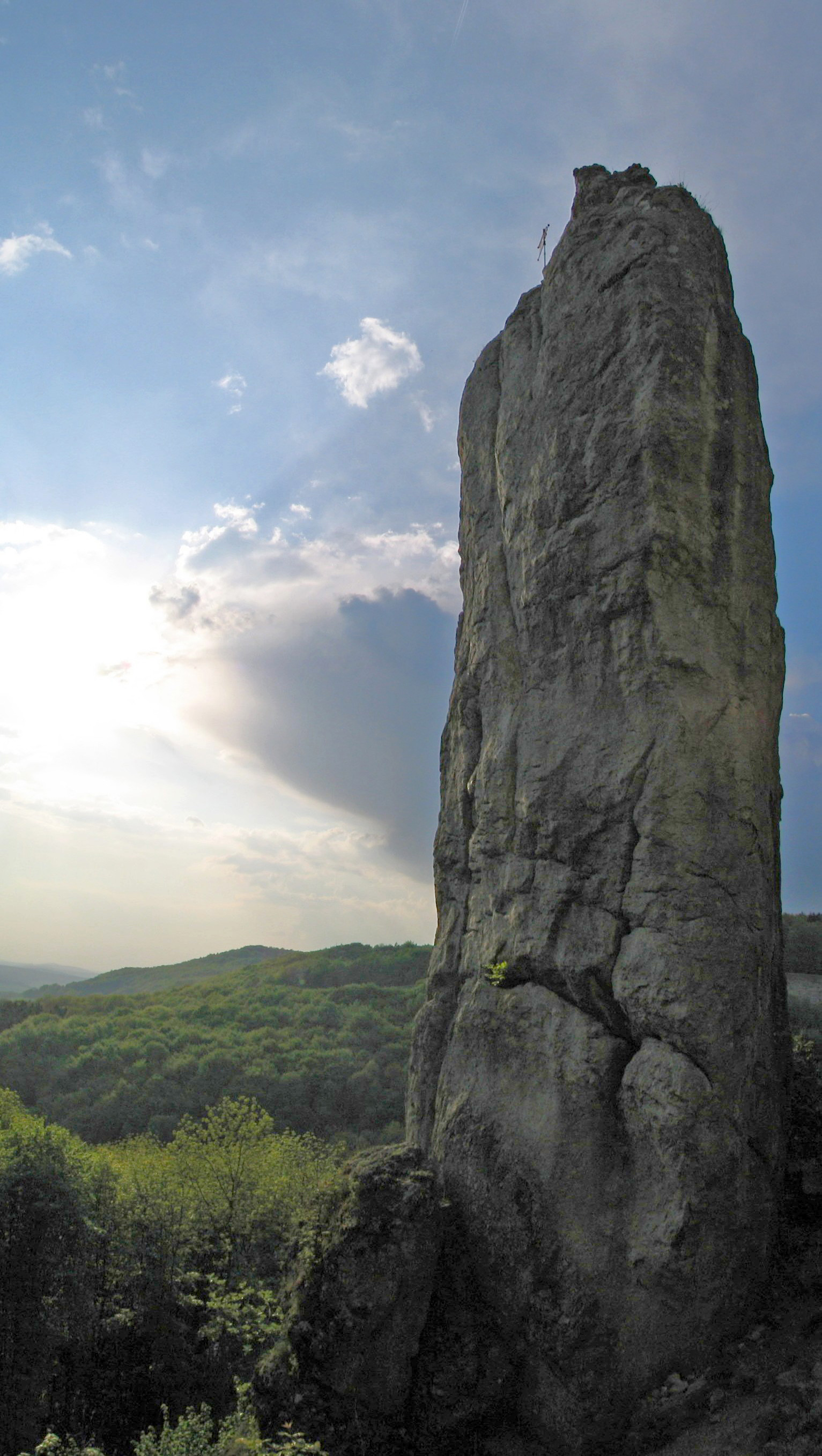 Nürnberger Turm in Würgauer Area, Franconian Switzerland, Franconia, Bavaria, Germany.